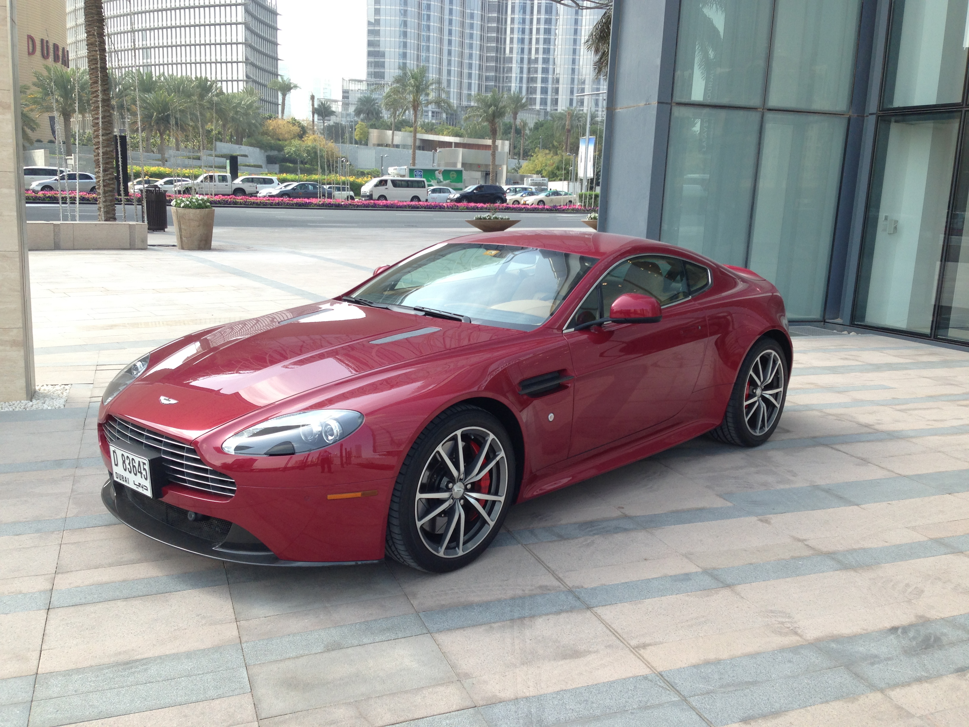 An Aston Martin V8 Vantage S taken in Dubai, United Arab Emirates.